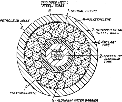 Cross-section diagram of a submarine communications cable